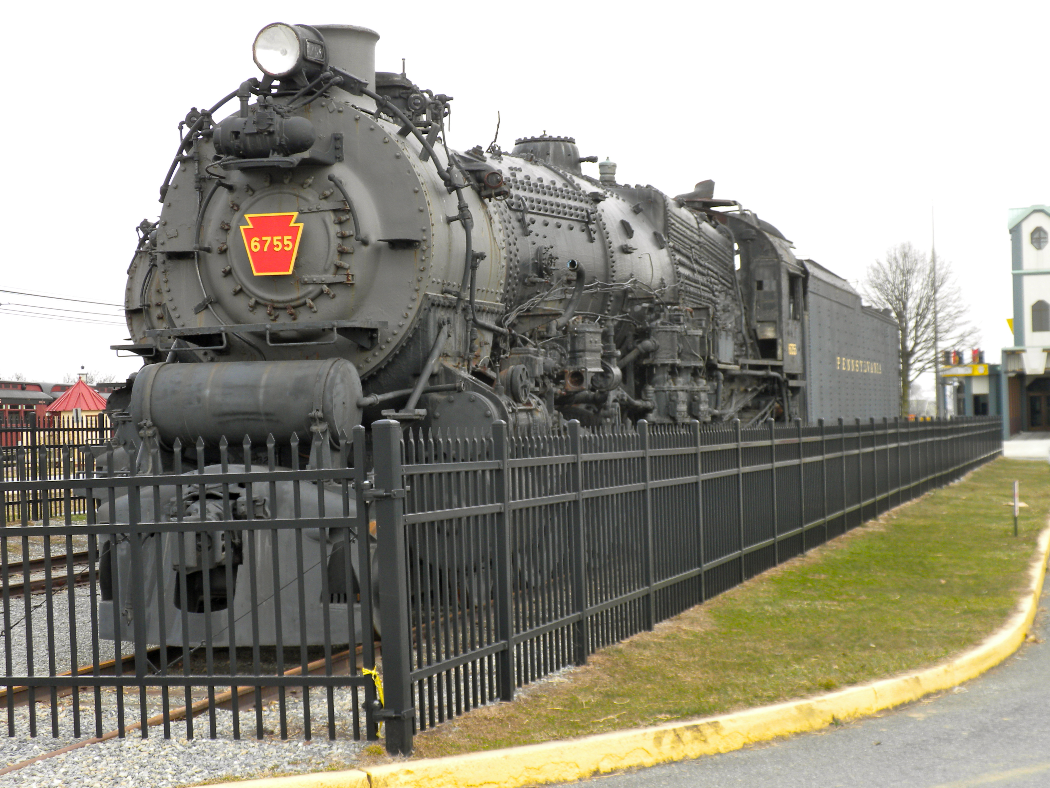 PRR Locomotive No. 6755 at the Railroad Museum of Pennsylvania, east of Strasburg, PA. On NRHP since December 17, 1979